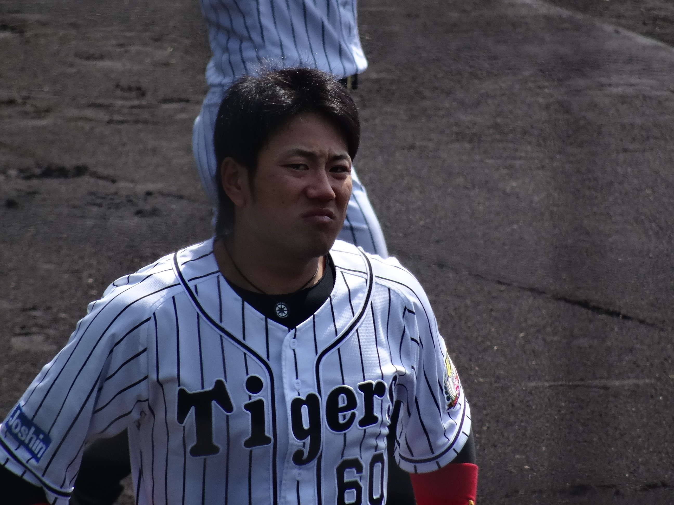 Masahiro Nakatani, outfielder of the Hanshin Tigers, at Hanshin Naruohama Baseball Ground.